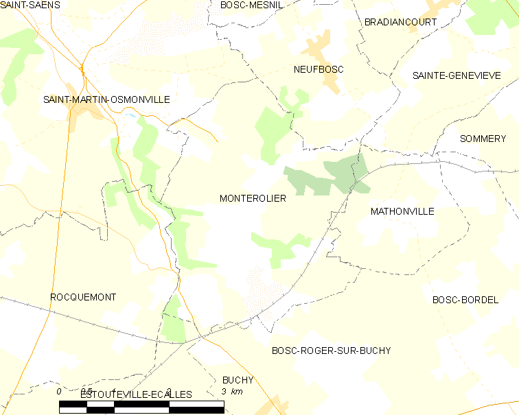 Map of French municipality Montérolier